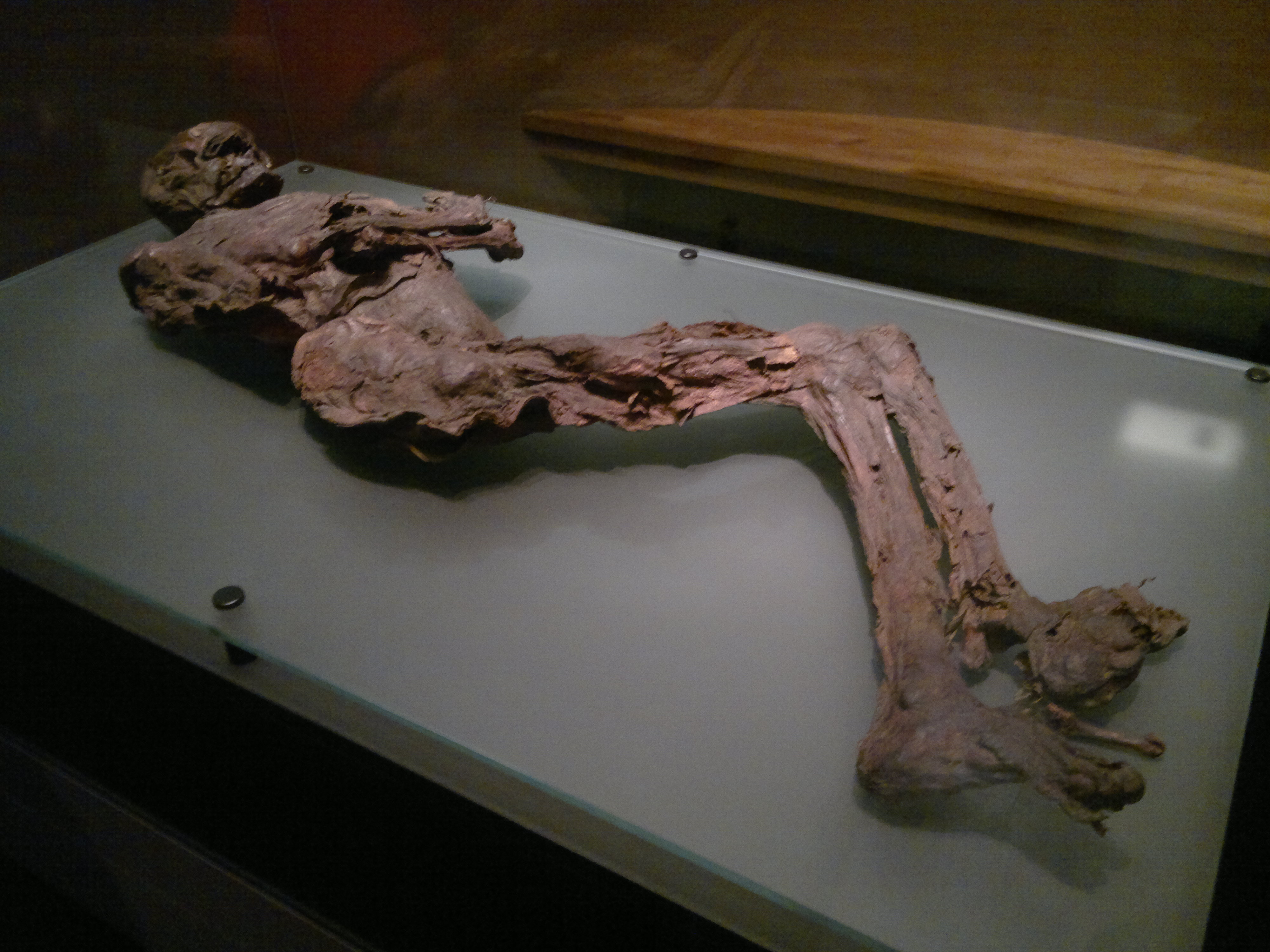 Full veiw of the Galagh Man at the National Museum of Ireland. This image was originally posted to Flickr by markhealey at It was reviewed on 3 September 2011 by FlickreviewR and was confirmed to be licensed under the terms of the cc-by-sa-2.0.